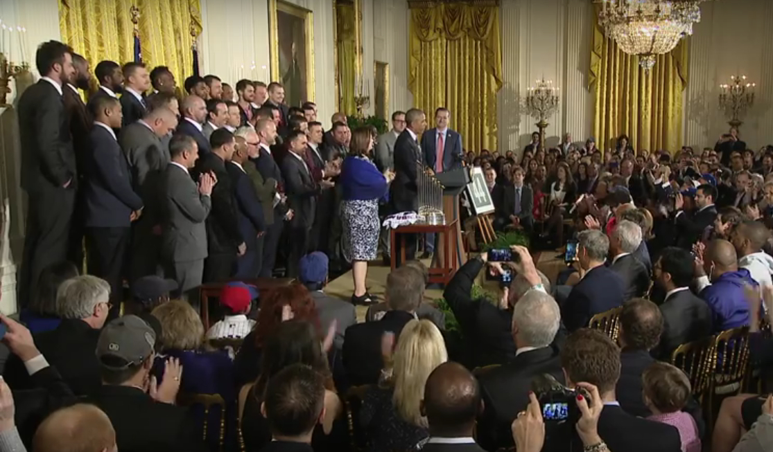 Chicago Cubs visit the White House after their win in the 2016 World Series